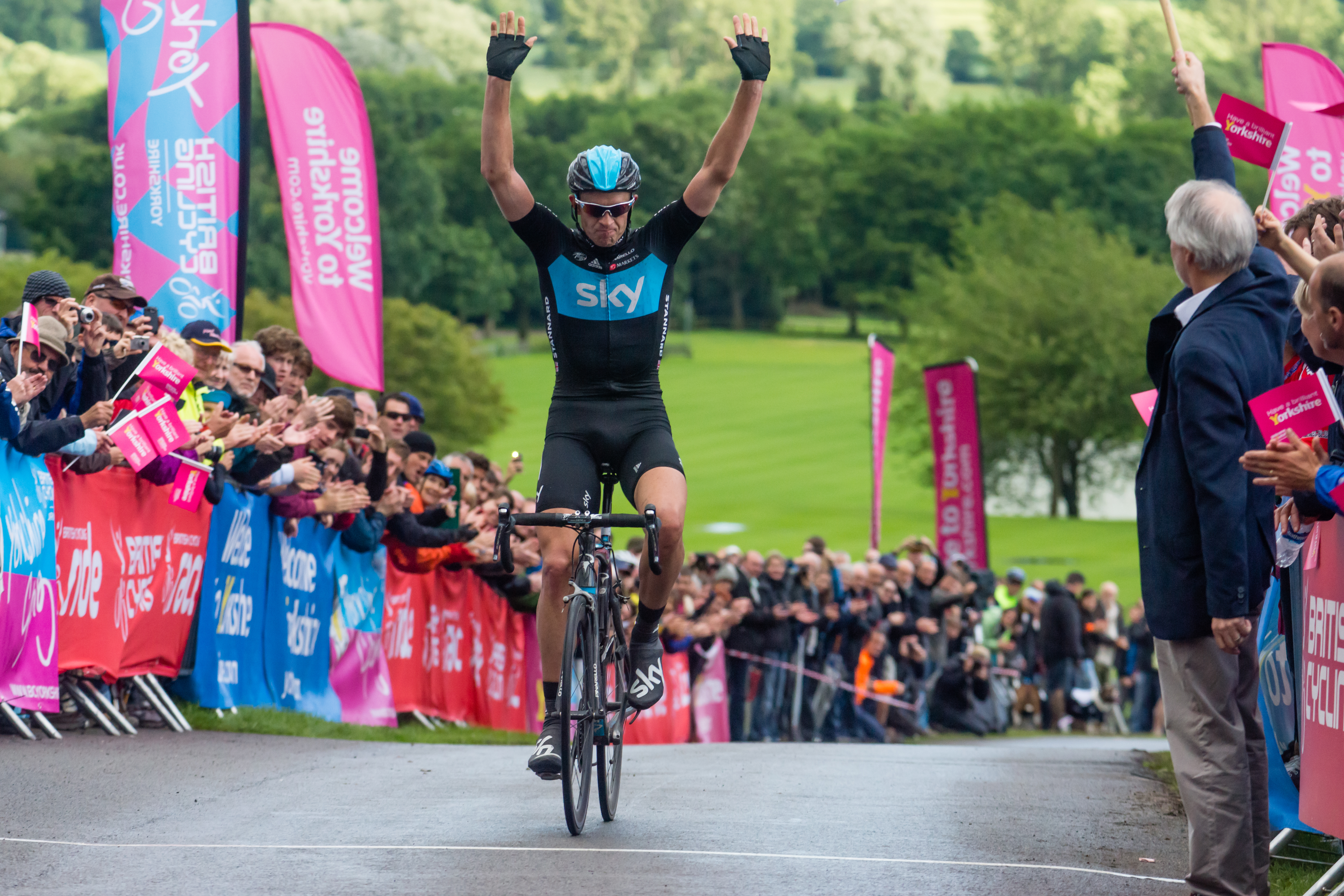 Ian Stannard crossing the finish line to win the British National Road Race Championships 2012 at Ampleforth College